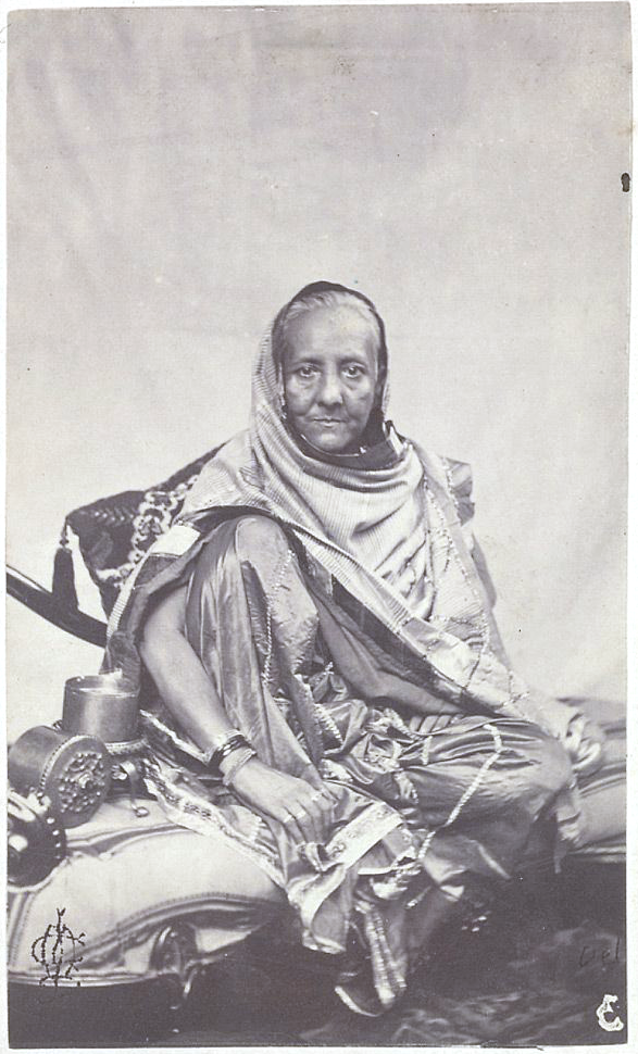 Photograph of Zinat Mahal Begum(?), the wife of Emperor Bahadur Shah II. This was presumably acquired by Metcalfe's son, Sir John Theophilus Metcalfe (1828-83), who was the magistrate in Delhi in 1857, and pasted in at that time. 'We (the Bayley family) possess her photograph taken after her capture' (after the Uprising of 1857). From 'Reminiscences of Imperial Delhi’, an album consisting of 89 folios containing approximately 130 paintings of views of the Mughal and pre-Mughal monuments of Delhi, as well as other contemporary material, with an accompanying manuscript text written by Sir Thomas Theophilus Metcalfe (1795-1853), the Governor-General’s Agent at the imperial court. This file has been provided by the British Library from its digital collections. This tag does not indicate the copyright status of the attached work. A normal copyright tag is still required. See Commons:Licensing for more information.